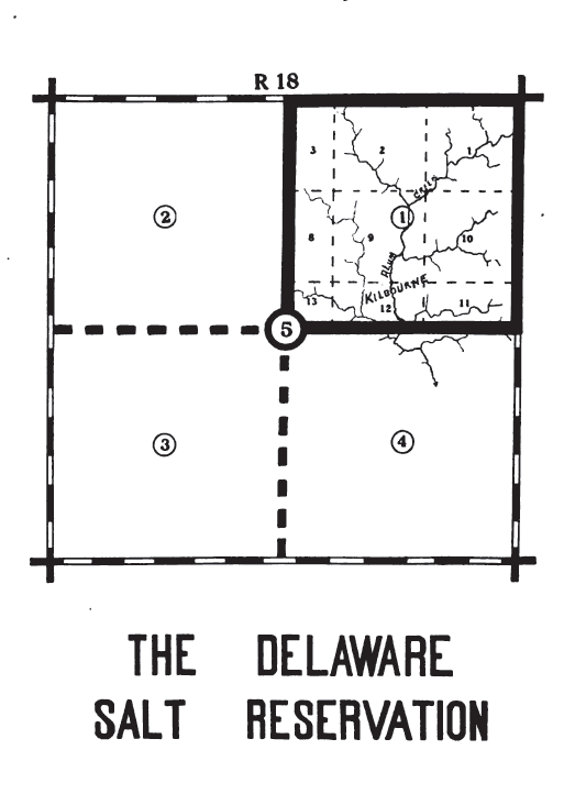 This map is of a land tract in Ohio associated with the Salt Reservations of the Ohio Lands.